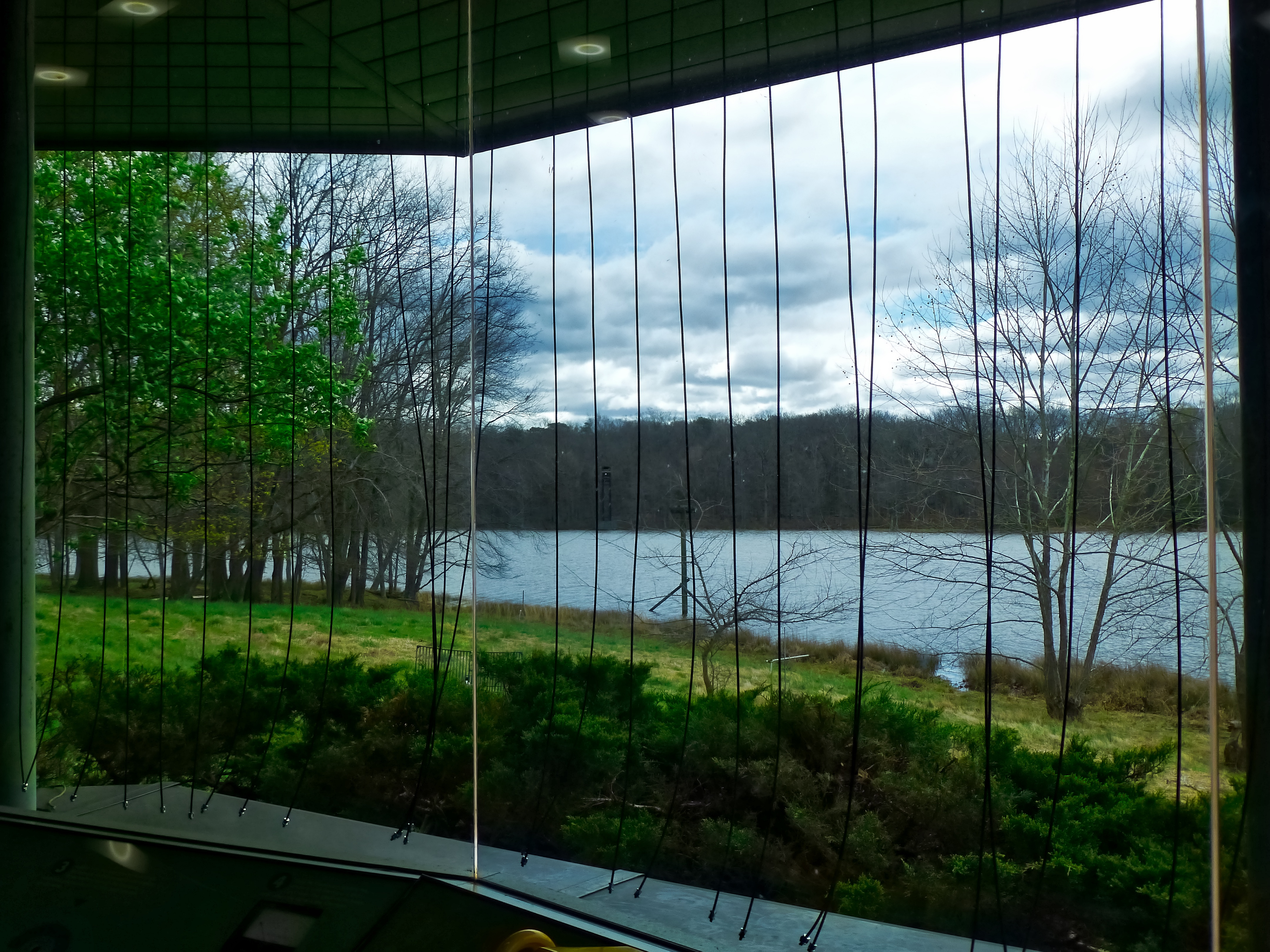 U.S. Fish and Wildlife Service Patuxent Research Refuge